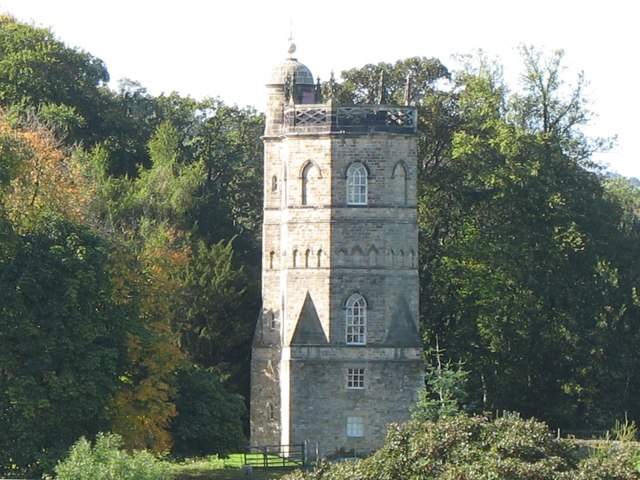 Culloden Tower Culloden Tower Folly viewed from Richmond Castle